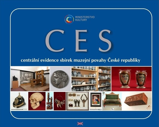 intro CES